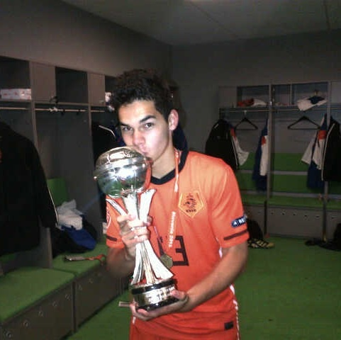 Sandy Walsh